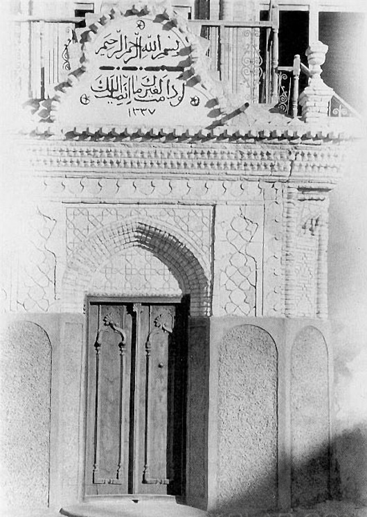 The entrance of Alseif Palace in early 1920s